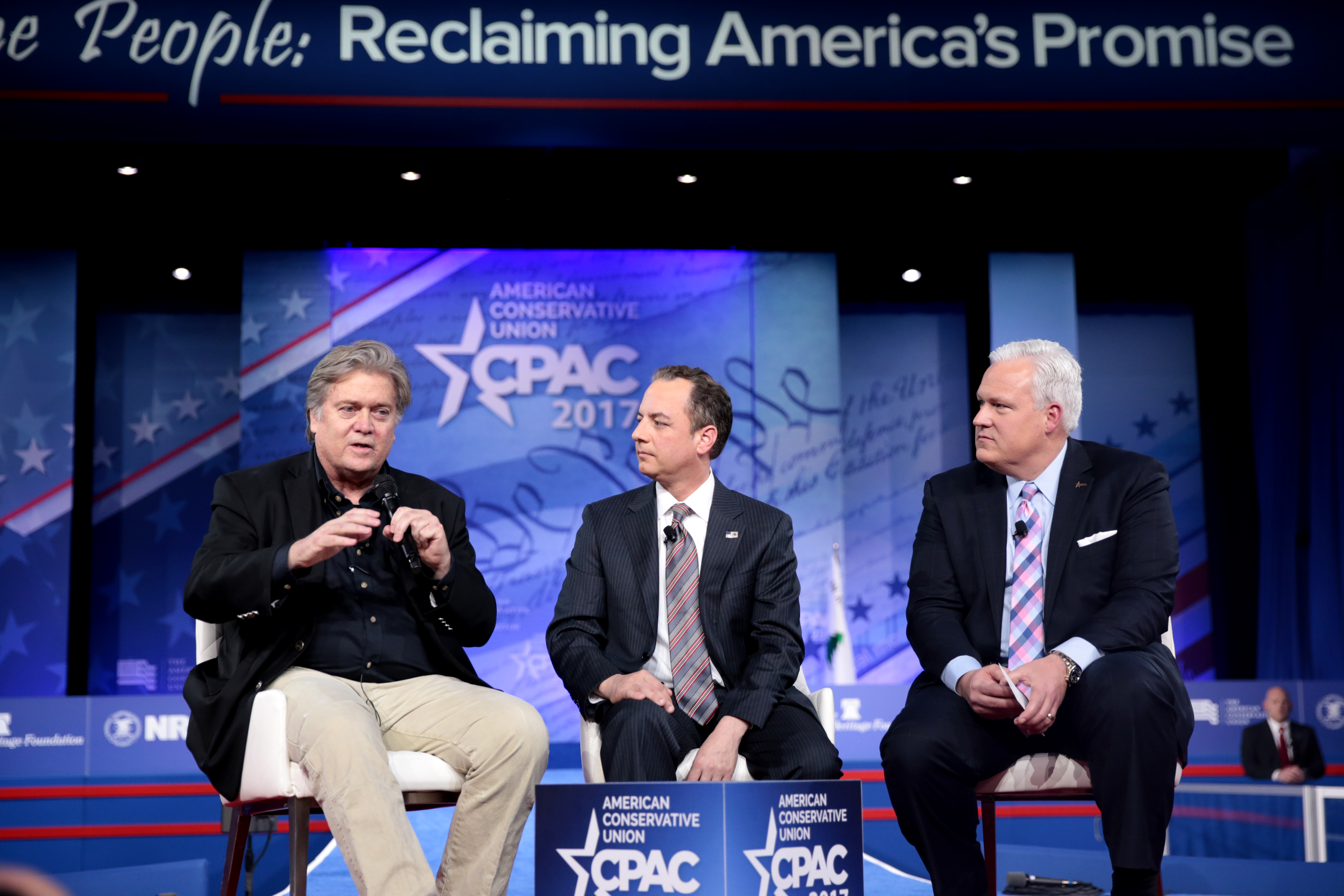 Chief White House Strategist Steve Bannon, Chief of Staff Reince Priebus and Matt Schlapp speaking at the 2017 Conservative Political Action Conference (CPAC) in National Harbor, Maryland.